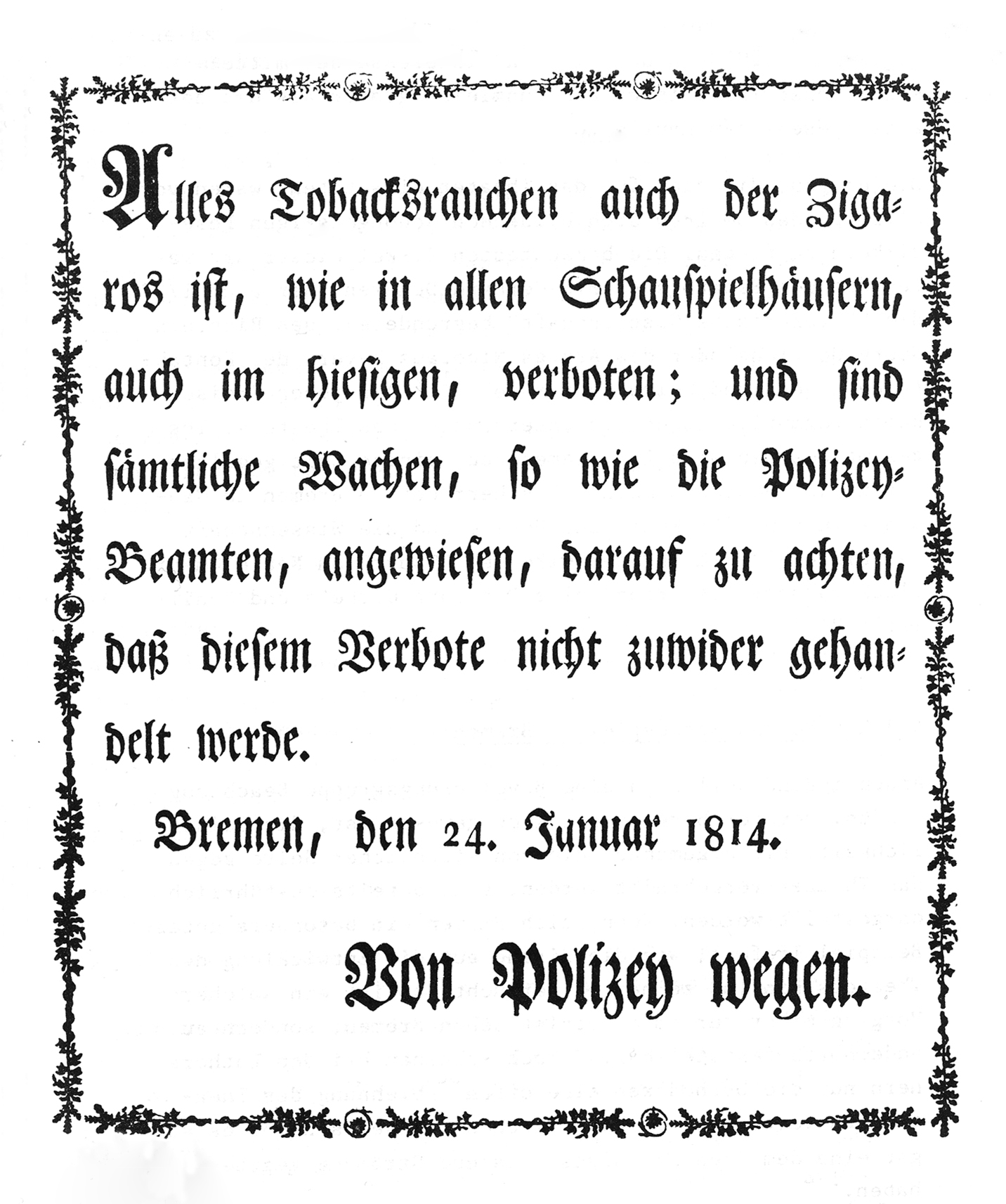 Police bulletin from the year 1814 prohibiting any kind of smoking in the theater of Bremen, Germany.